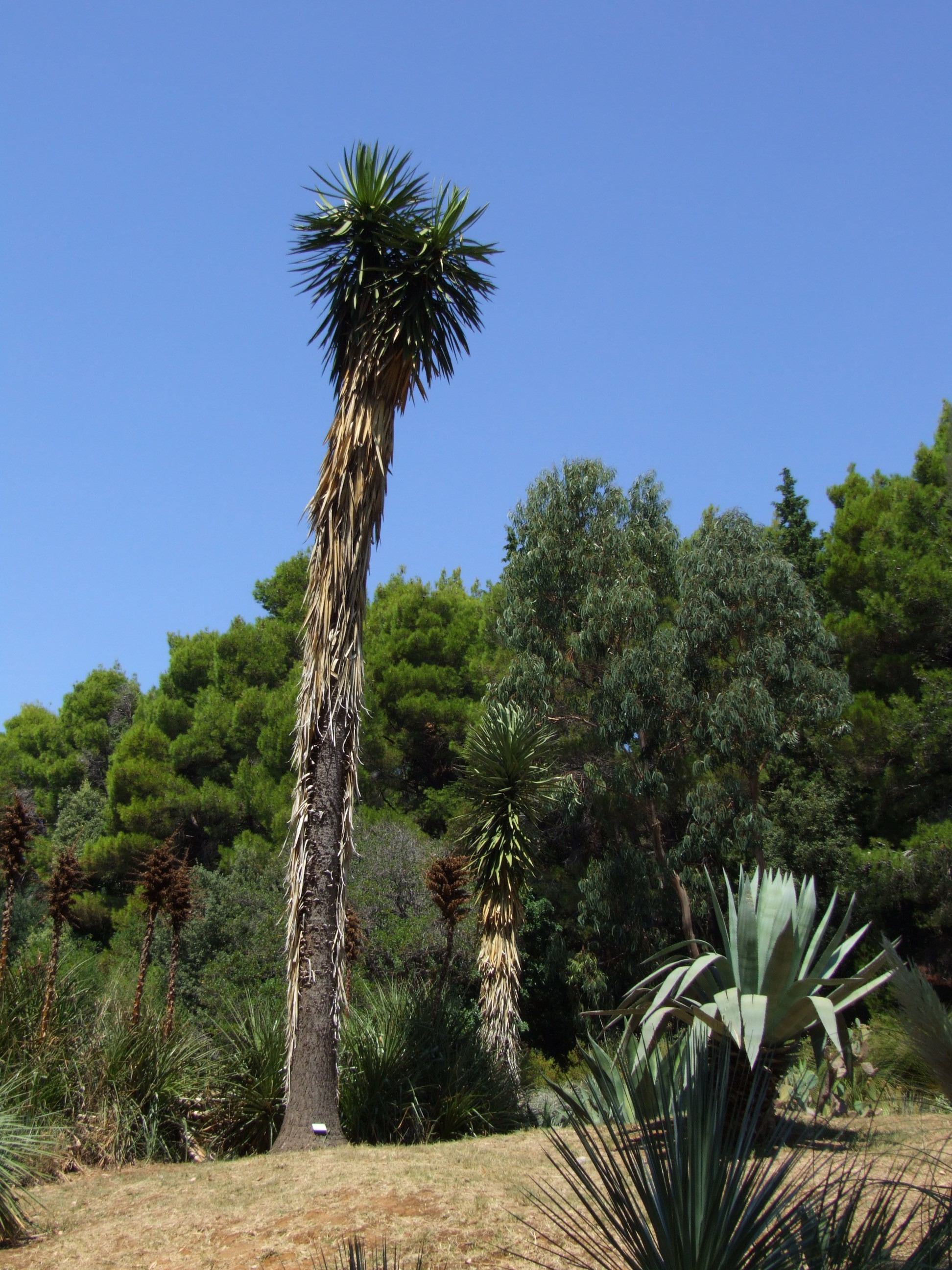 Lokrum Island, Dalmacia - botanical garden